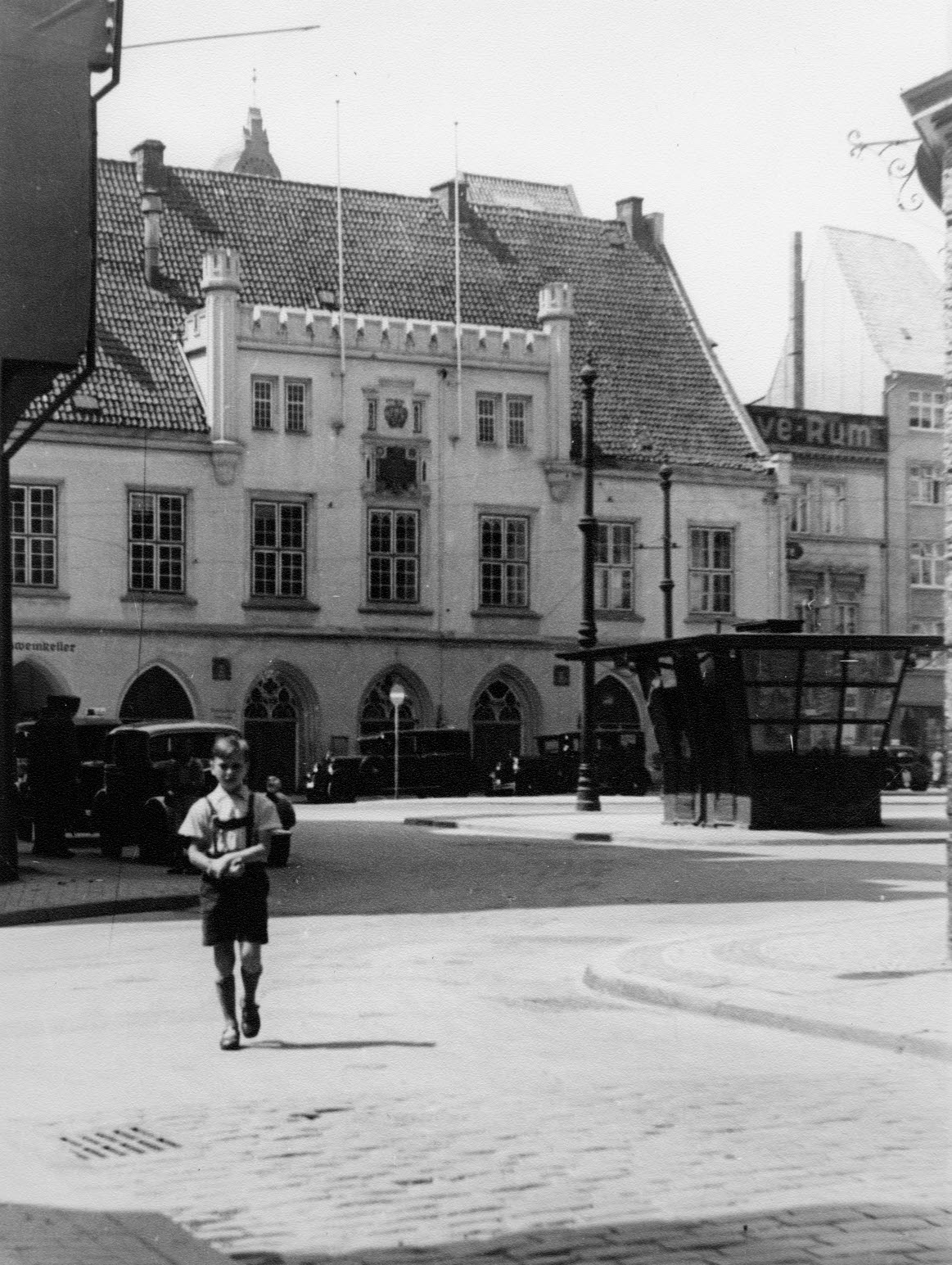 Old Town Hall at the Old Market 1938